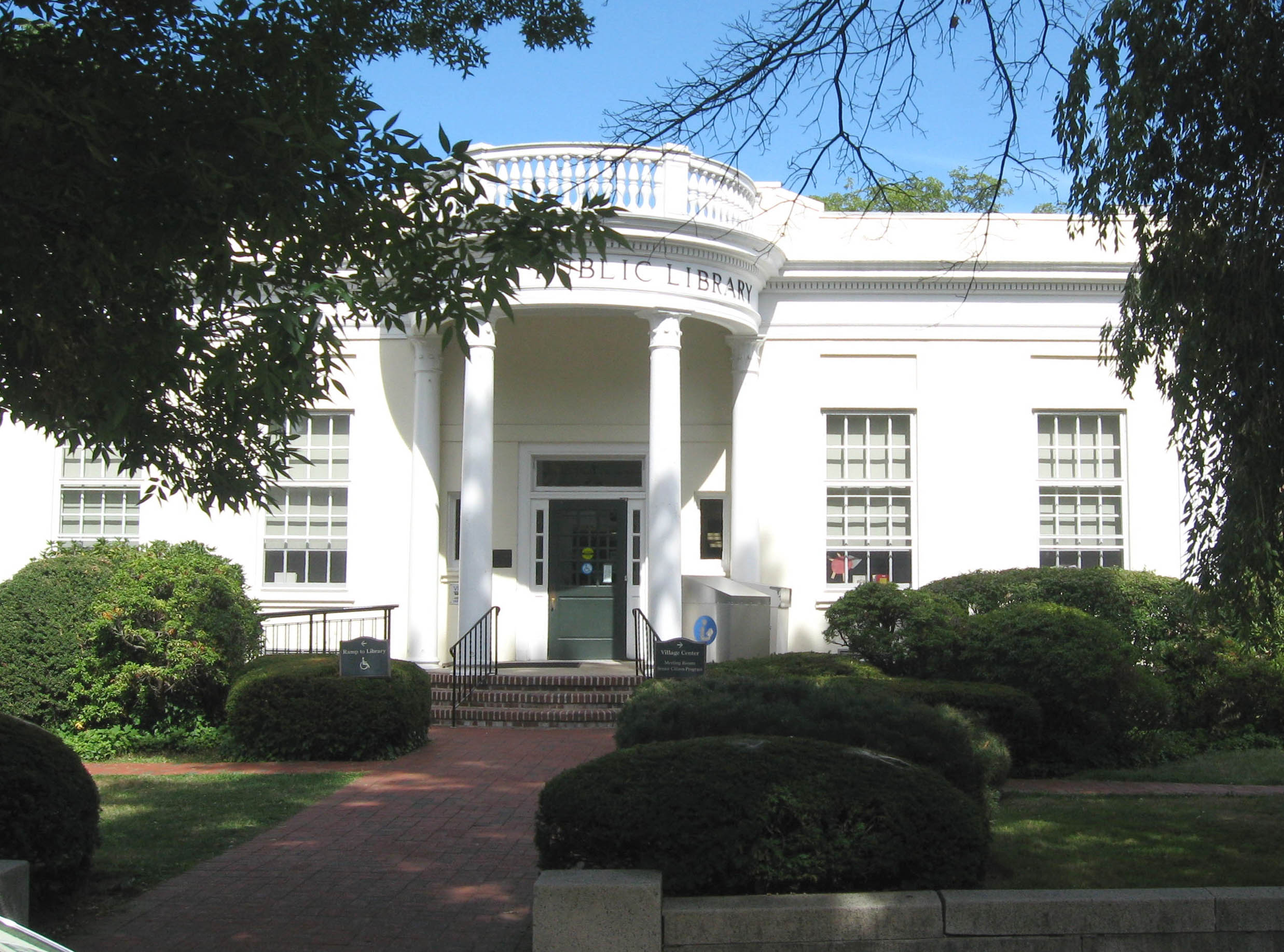 Looking northeast at Larchmont, New York Public Library across the street from Village Hall on a sunny early afternoon